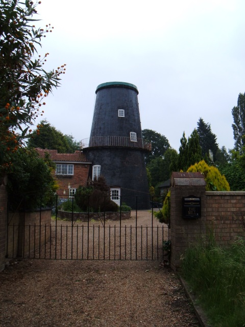 West Winch Towermill